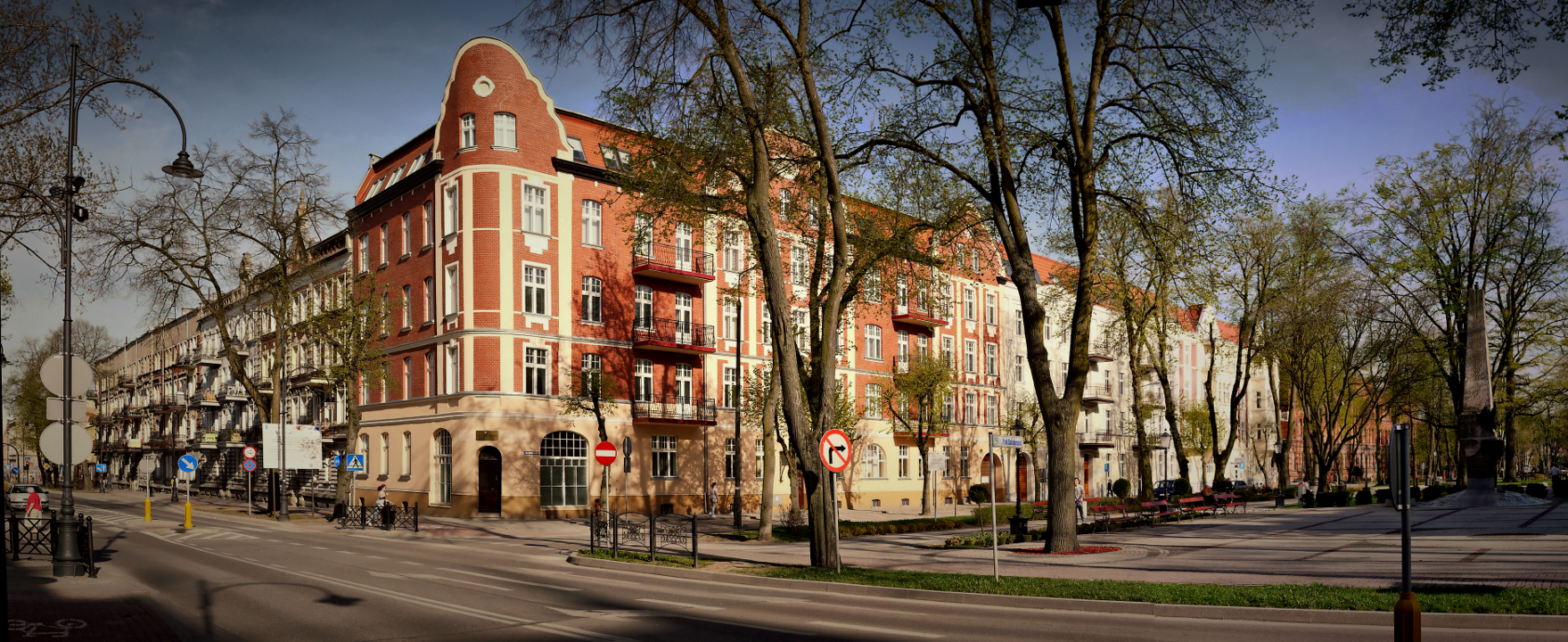 Ełk - Małeckich St. and Mickiewicza St. crossing - May 2012